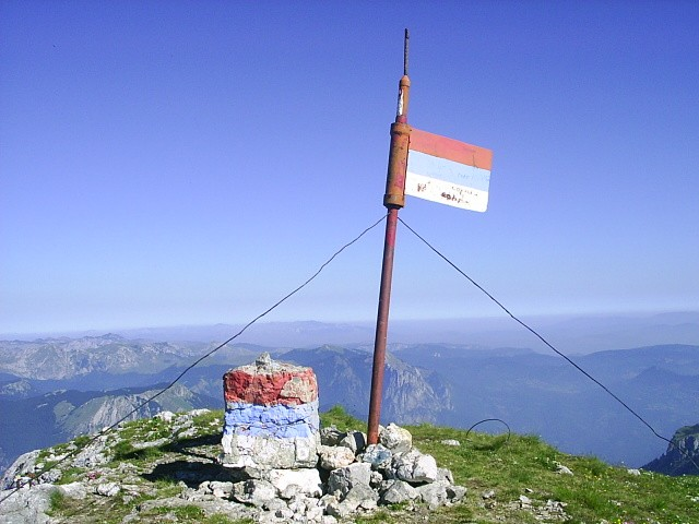 Maglić, Bosnia and Herzegovina